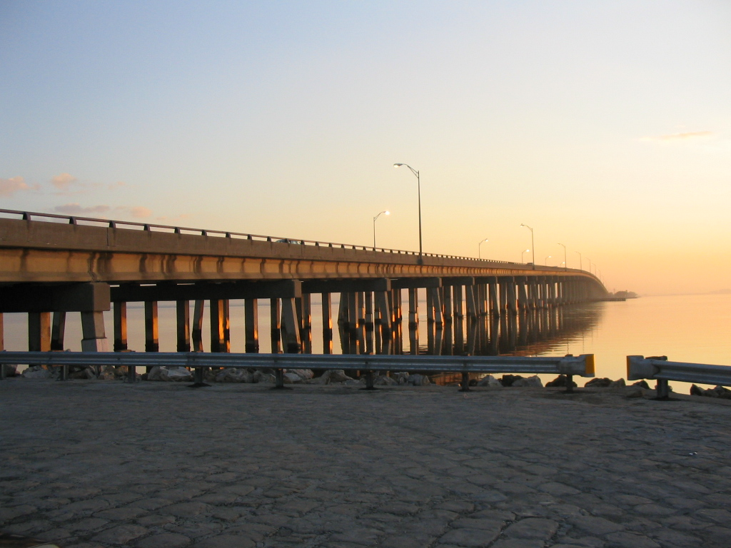 The Courtney Campbell Causeway at sunrise, from the Clearwater side of the bridge, on the south side of the service road.